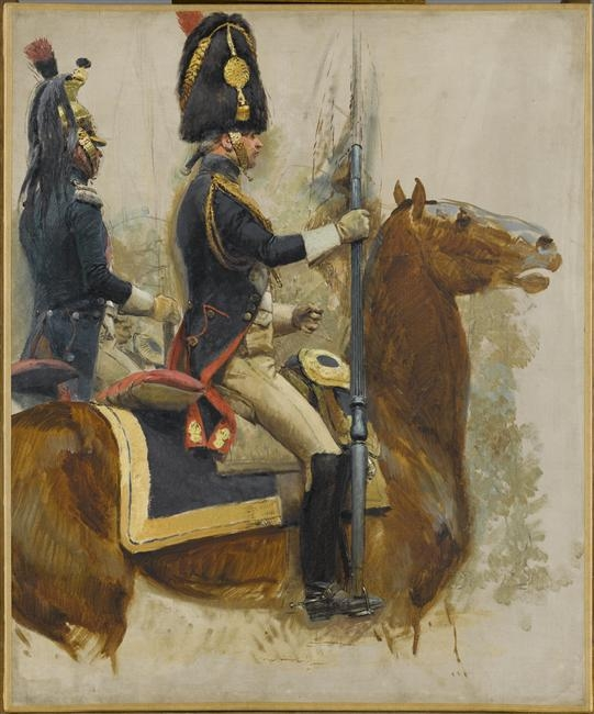 Sketch depicting a French Horse Grenadier and a French Dragoon, by Edouard Detaille